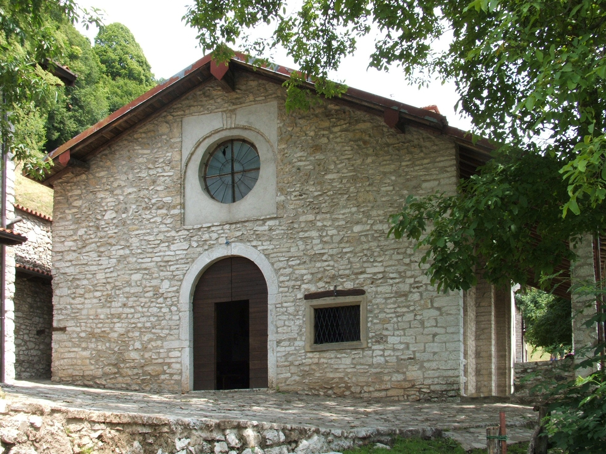 Cenate Sopra, Bergamo, Italy - Saint Mary of Misma church